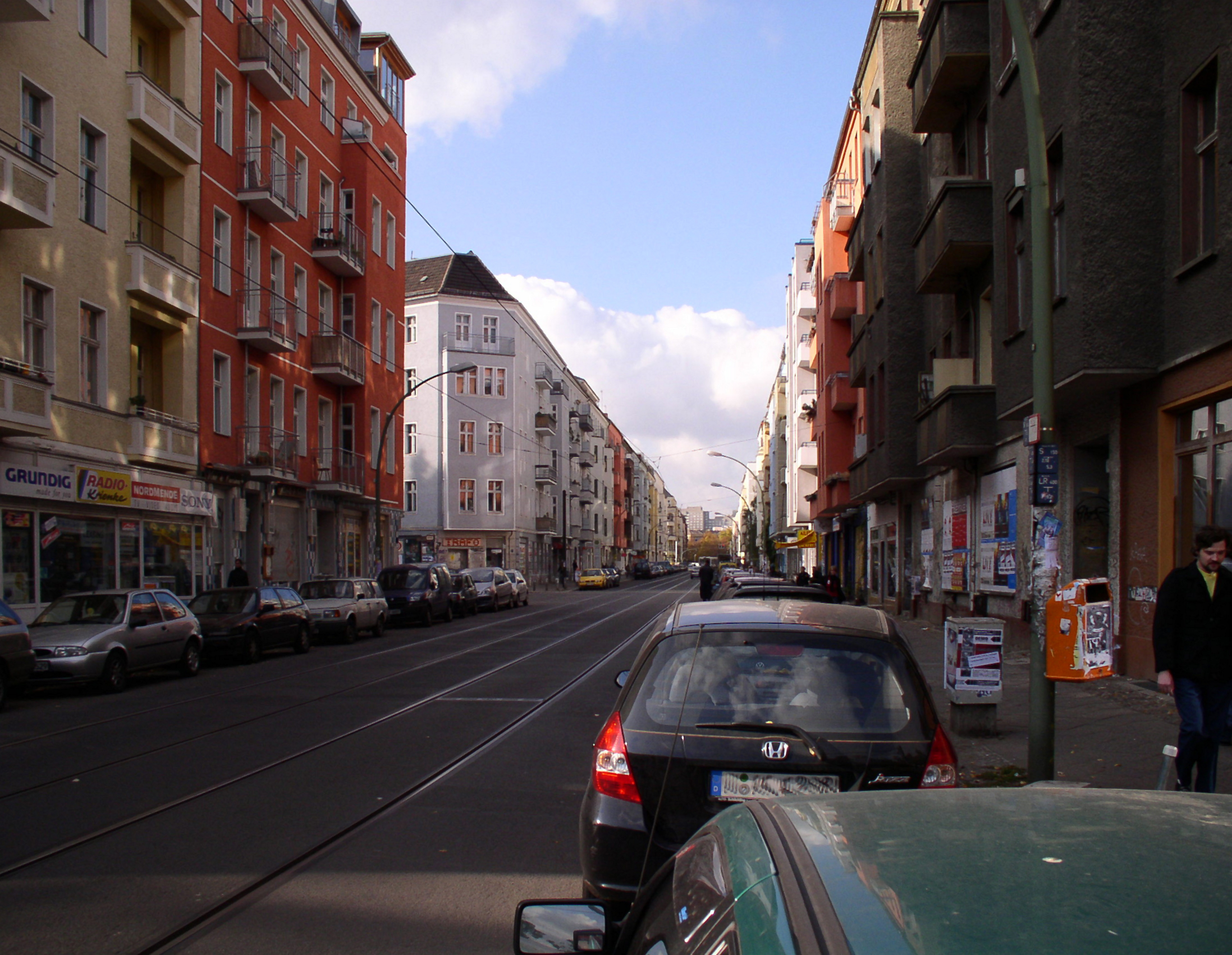 The Kopernikusstraße in Berlin-Friedrichshain, seen in east direction